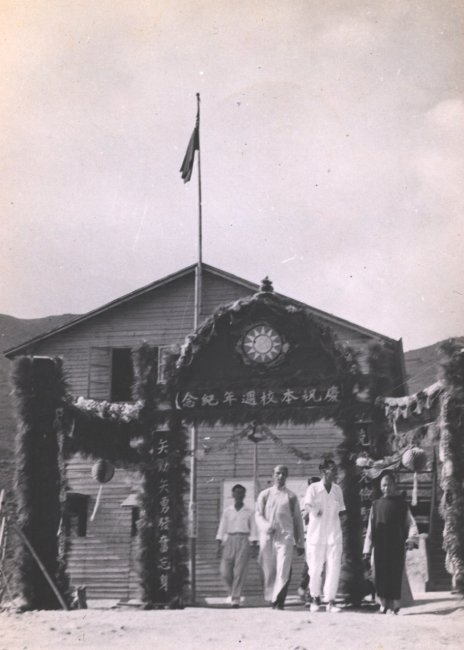 1951 of Tiu Keng Leng 中文（香港）: 1951年的調景嶺